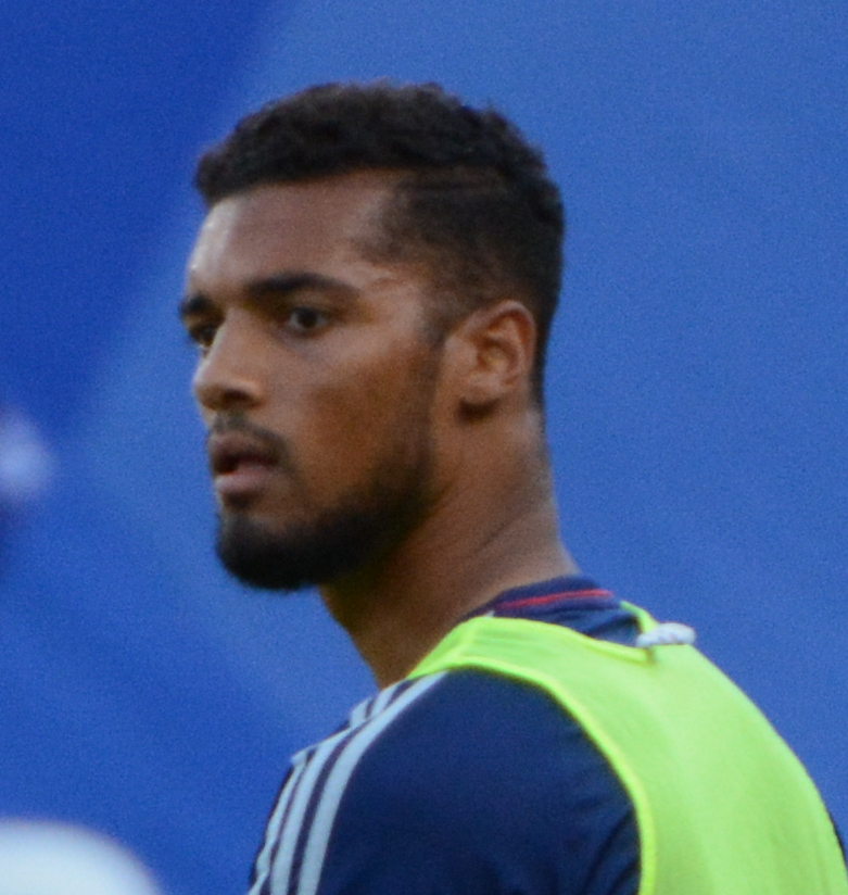 Taken at a U.S. Open Cup match between FC Cincinnati and Chicago Fire SC at Nippert Stadium in Cincinnati, Ohio on June 28, 2017.